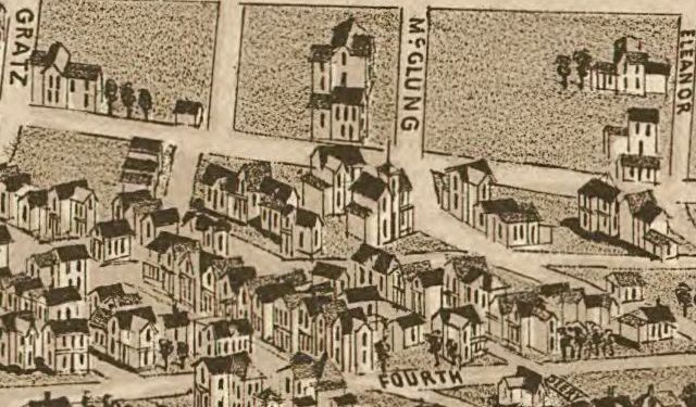 Detail of an 1886 map of Knoxville, Tennessee, showing the Fourth and Gill neighborhood. "McClung" is now Luttrell Street.